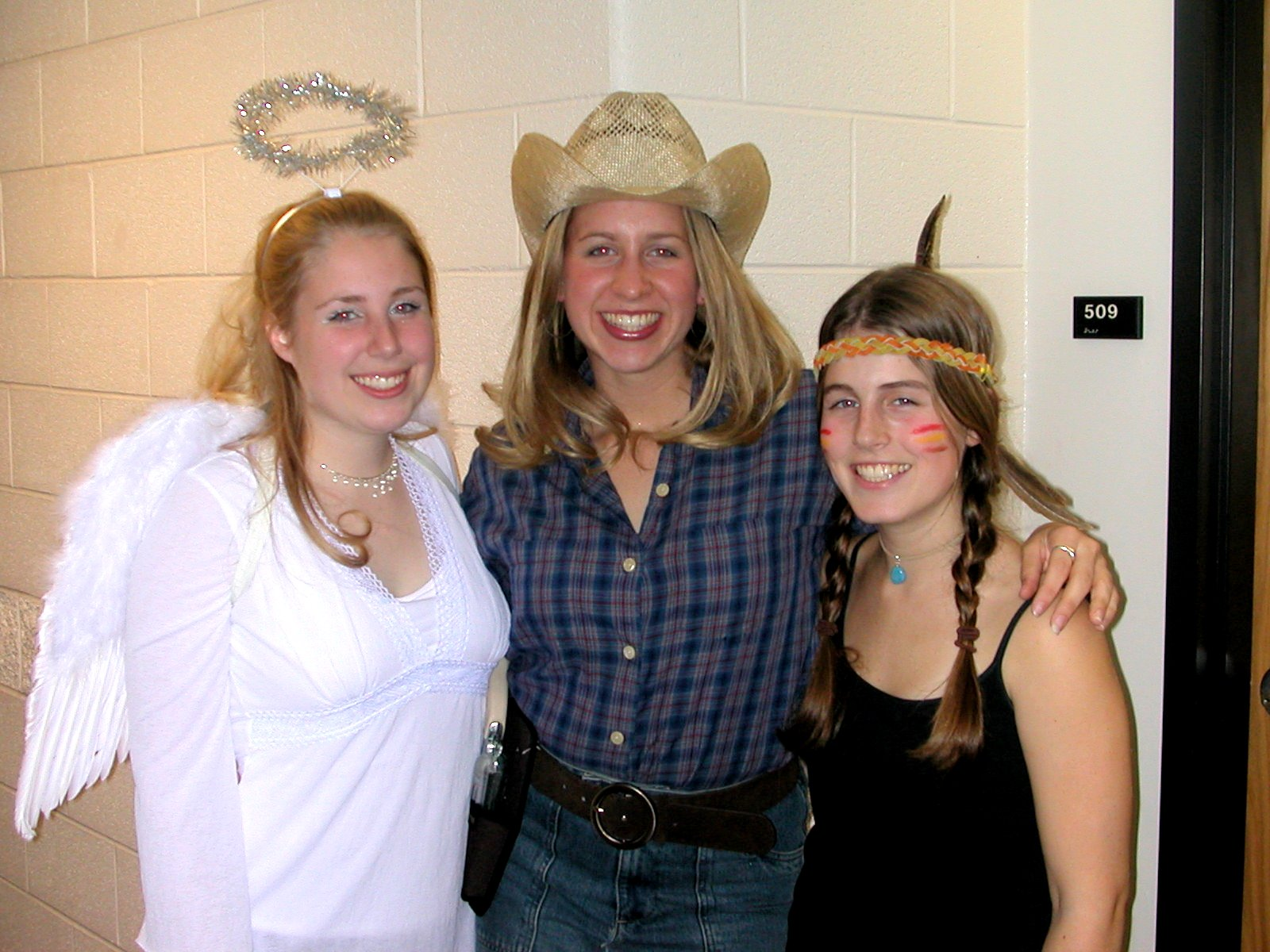 Three women are dressed for Halloween in Potomac Hall at James Madison University